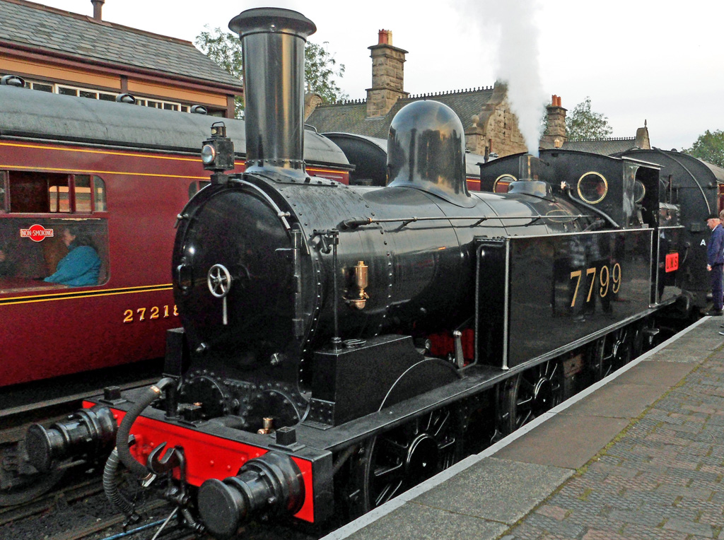 LNWR 0-6-2T Coal Tank 7799 in 1920s LMS livery at Severn Valley Railway in 2012.